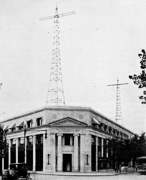 Photograph of the newly constructed WRC radio towers atop the Riggs Bank building in Washington, D.C. Original caption: "THE AERIAL WIRES ARE 150 FEET ABOVE THE STREET LEVEL And there is nothing in the vicinity of the Riggs Bank Building which can obstruct the radiation of waves from this station."